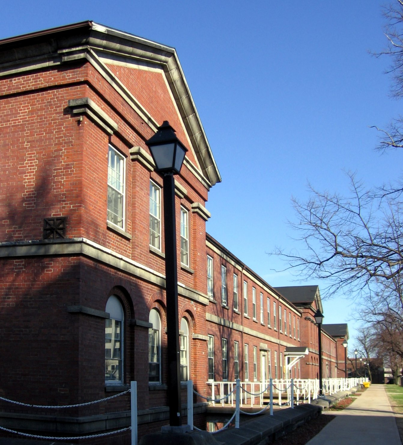 The original Wellington Barracks (now Nelson Barracks) at HMCS Stadacona, now a part of CFB Halifax, Nova Scotia.